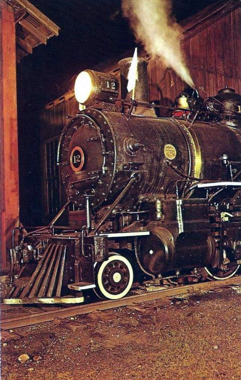 Postcard photo of East Broad Top Railroad's Engine 12, a 2-8-2 Mikado steam driven locomotive, taken in August 1960, a short time after the railroad was re-opened after its 1956 closure.